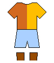 Derby's old shirt.